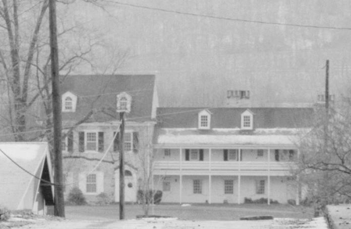 Detail of the Wallis House, Muncy Township, Lycoming County, Pennsylvania, USA. Original number was "HAER PA,41-MUNC.V,1-6", original caption was "6. Credit JTL: View south across bridge toward farm buildings"